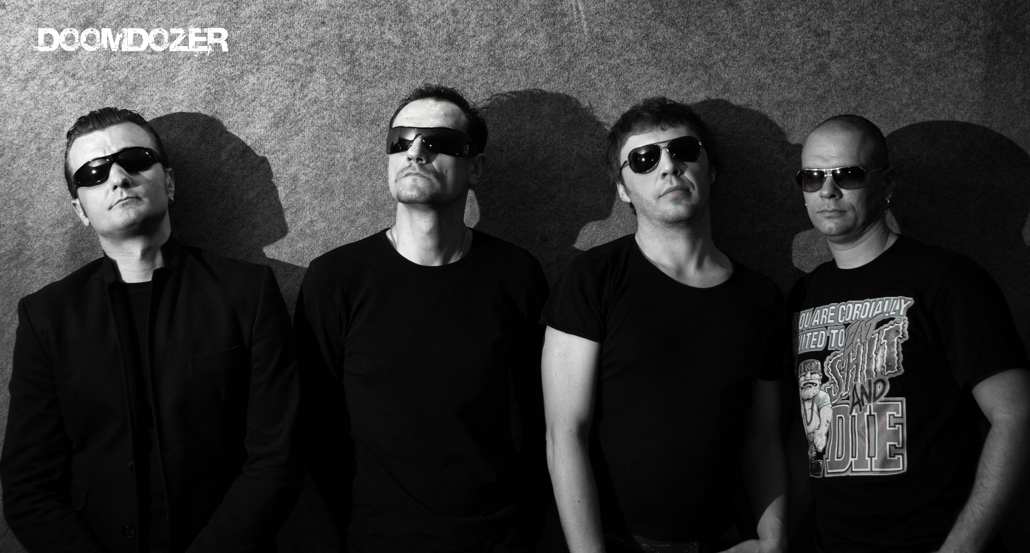 Doomdozer